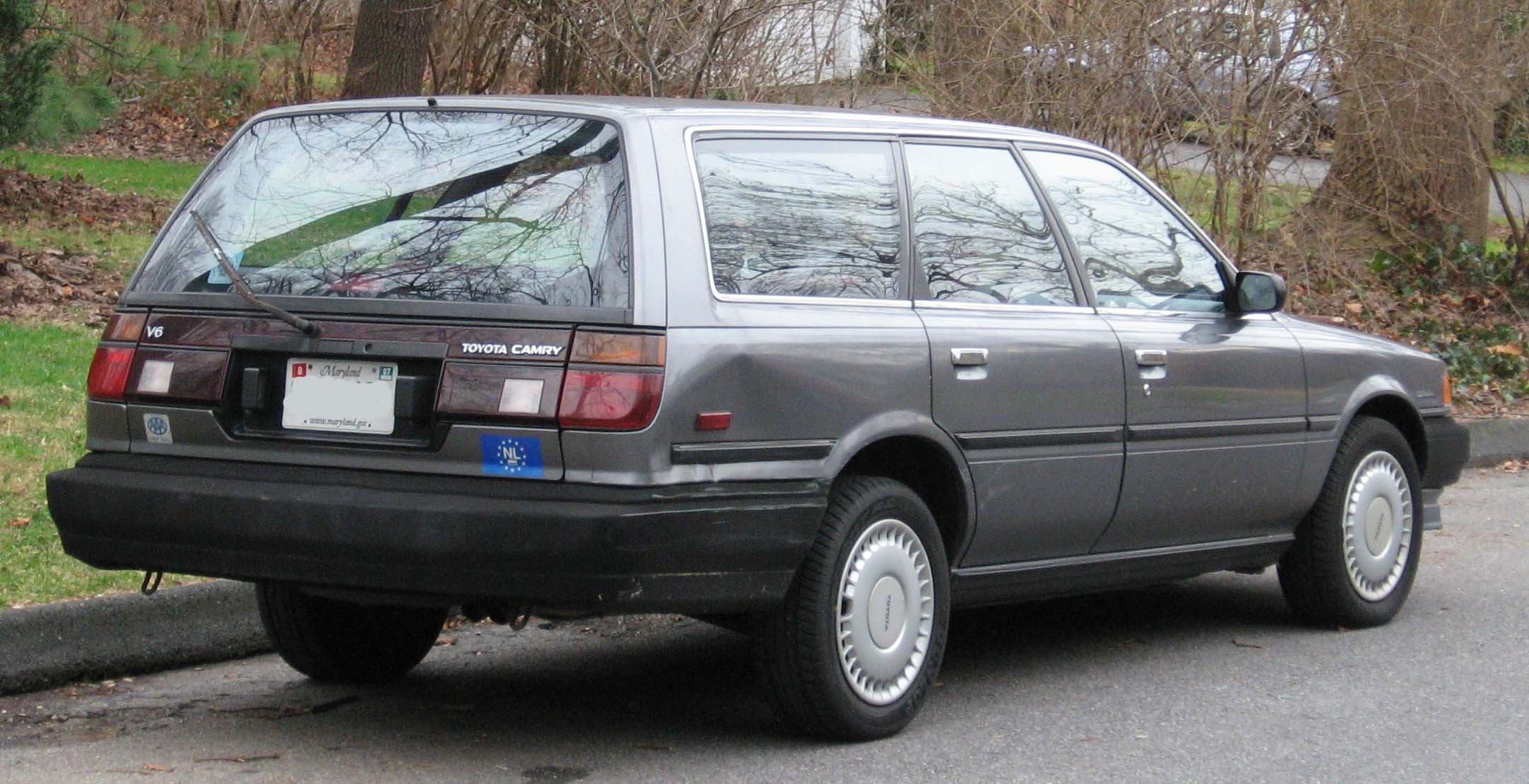 1989-1990 Toyota Camry wagon photographed in USA.